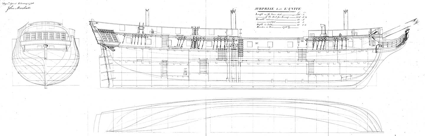 Plans of HMS Surprise, originally built as French corvette L'Unite